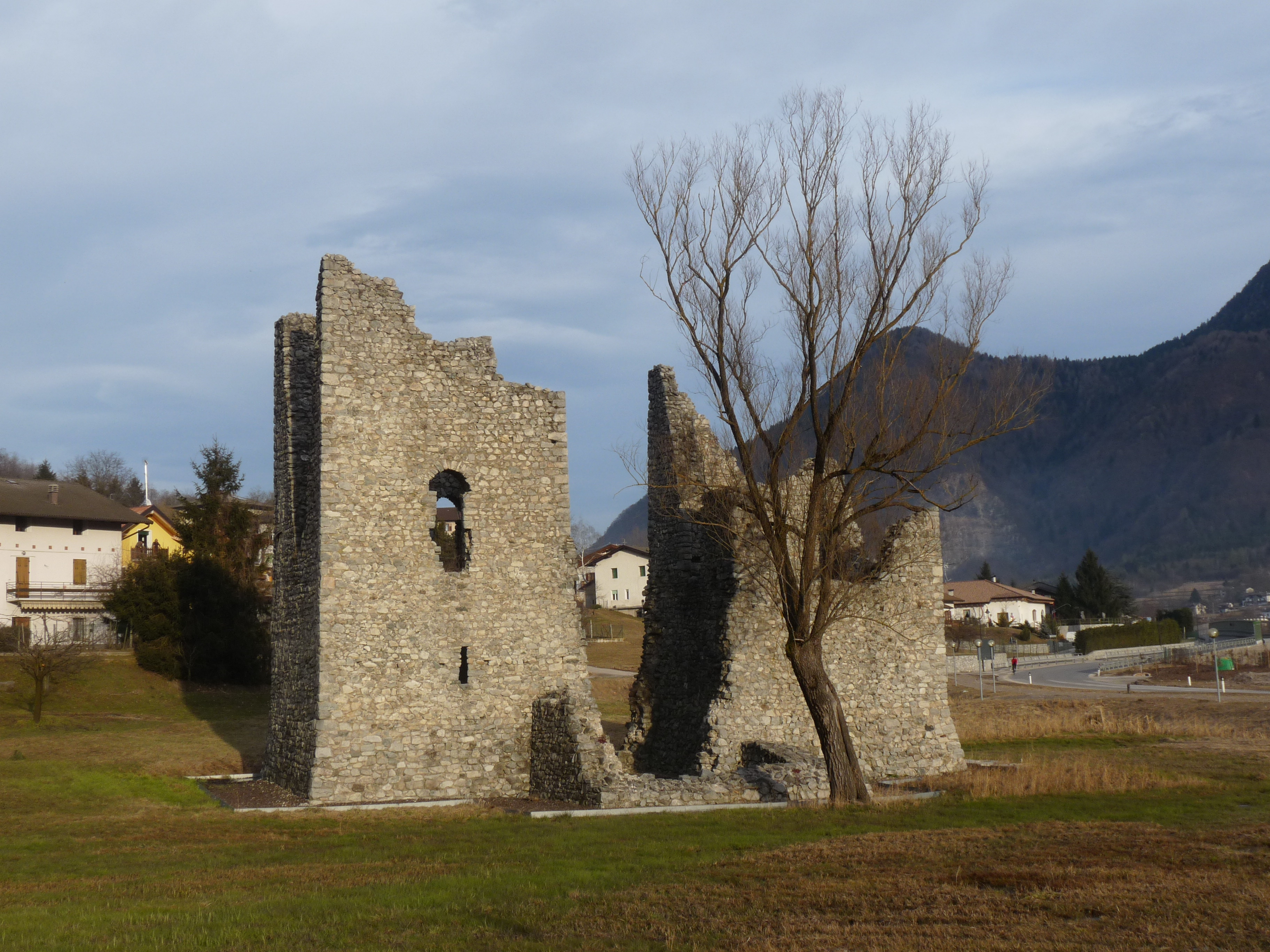 Novaledo (Italy): view of the remains of the so-called Tor Quadra from west.